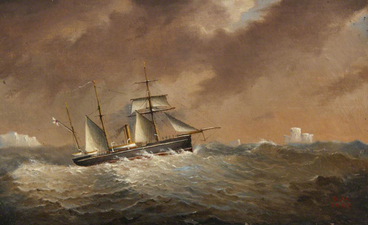 The gunboat HMS Goldfinch, by Bloomfield Douglas BHC3373 Materials oil on canvas on board Measurements Painting: 260 x 413 x 11 mm